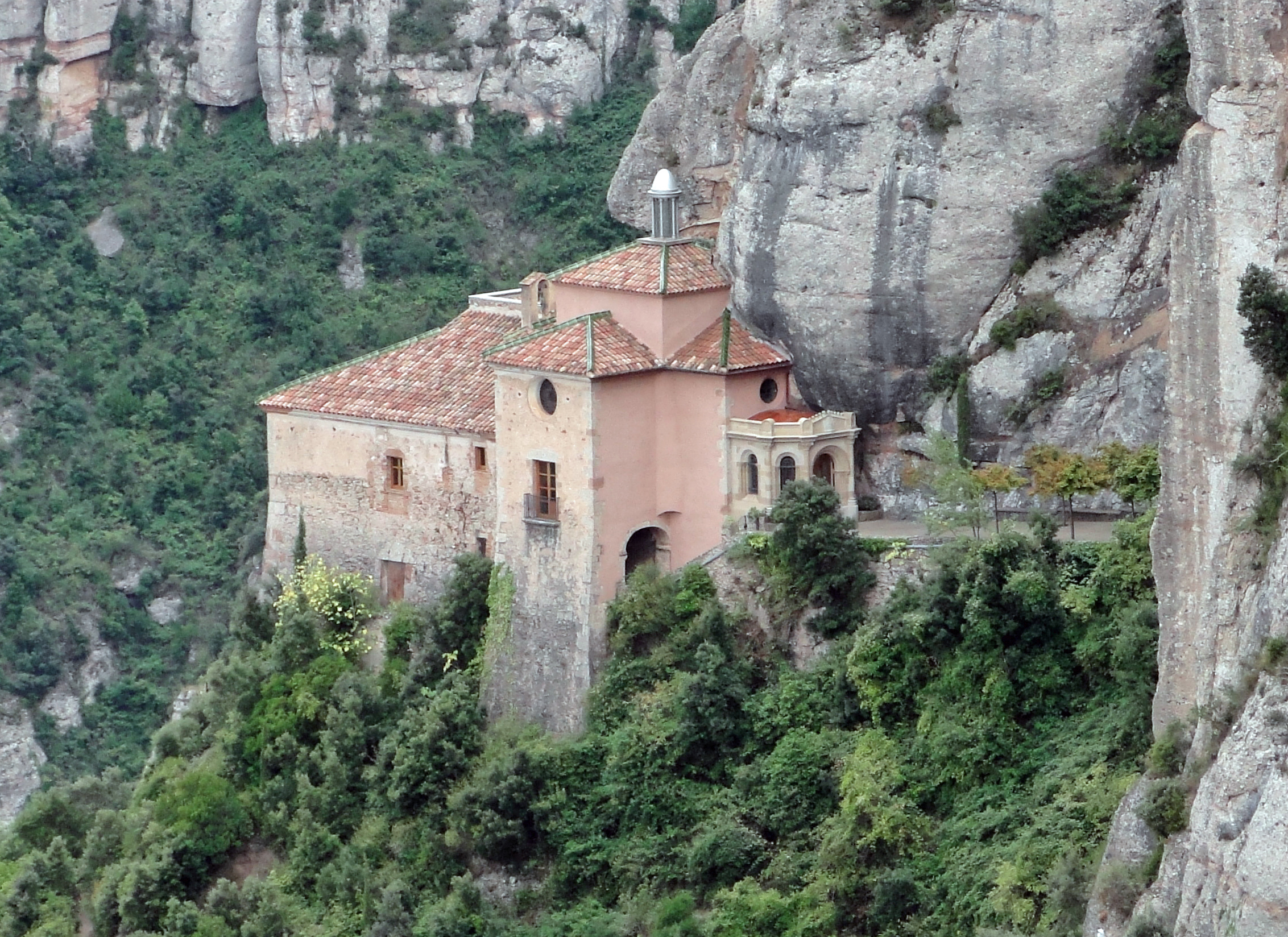 Santa Cova Chapel near the Abbey Santa Maria de Montserrat, Catalonia, Spain